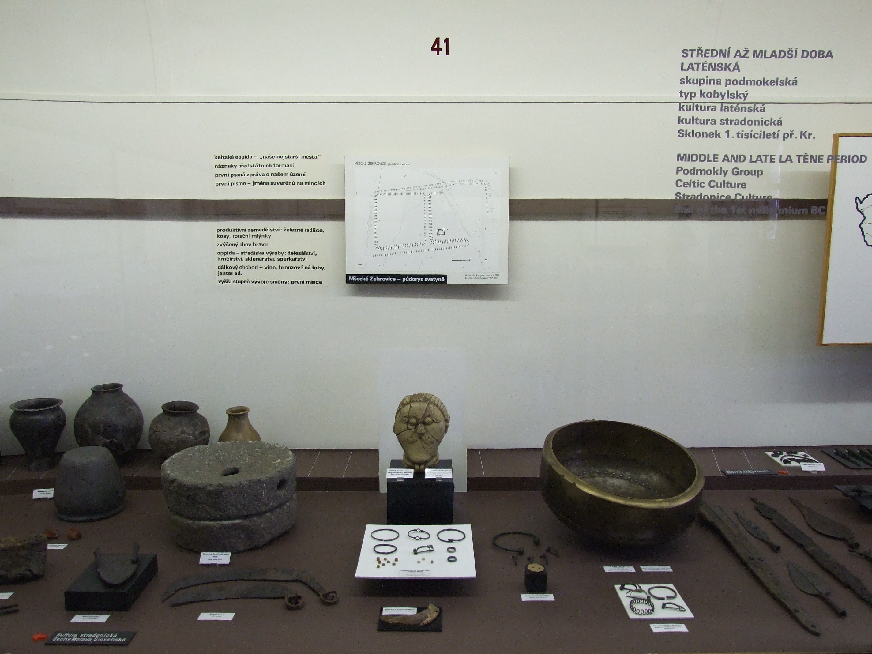 Prehistoric Times of Bohemia, Moravia and Slovakia, National Museum in Prague